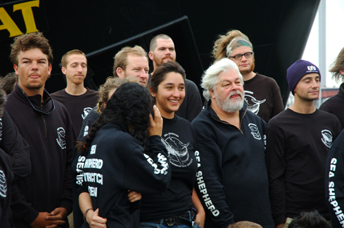 Description from English Wikipedia: "Paul Watson just off center with silver hair. I took this at Dockland, Melbourne, Australia in 2005."